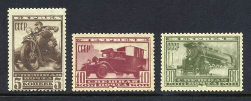 Stamp of USSR